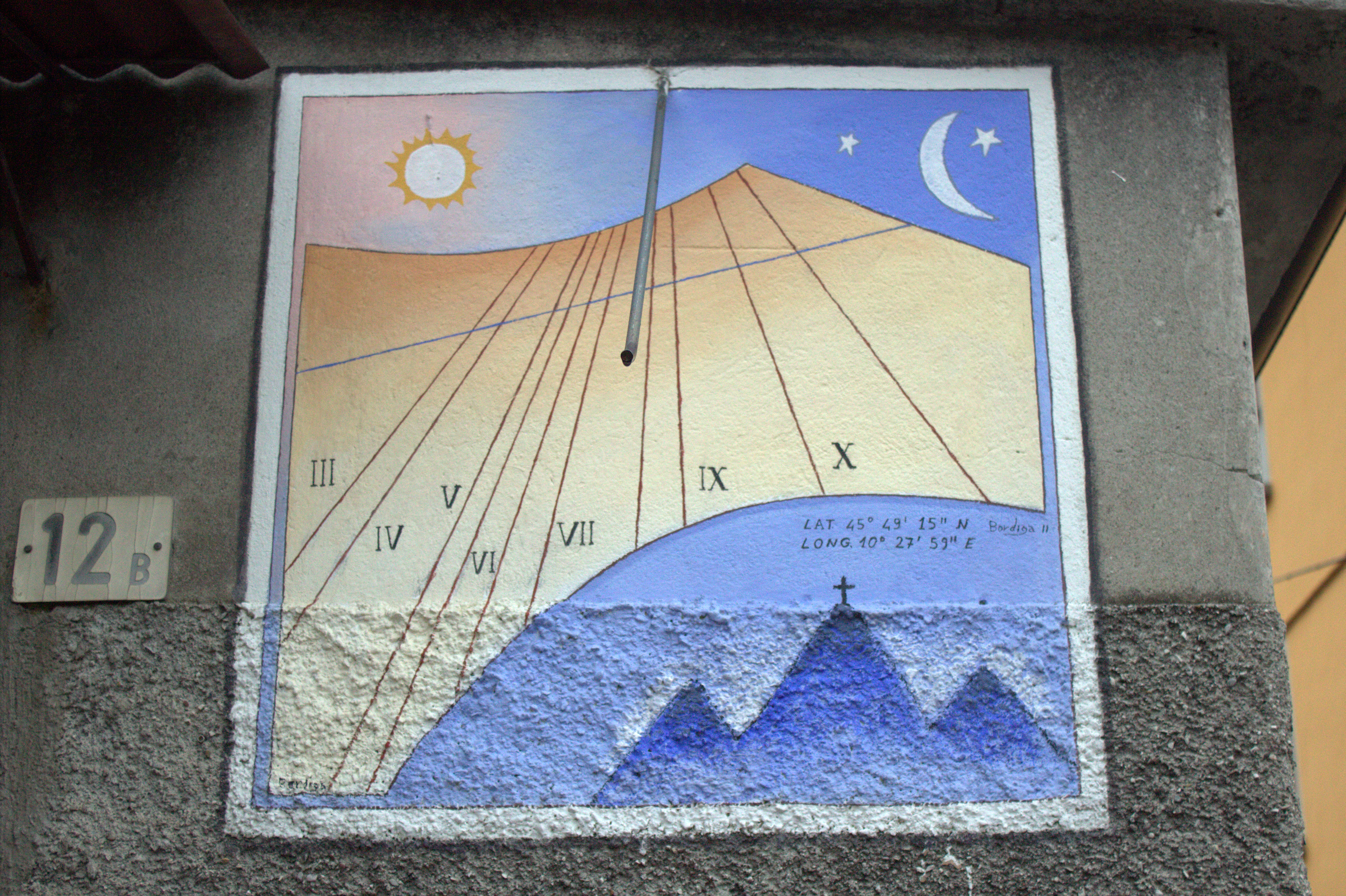 Wall painting in Bagolino.